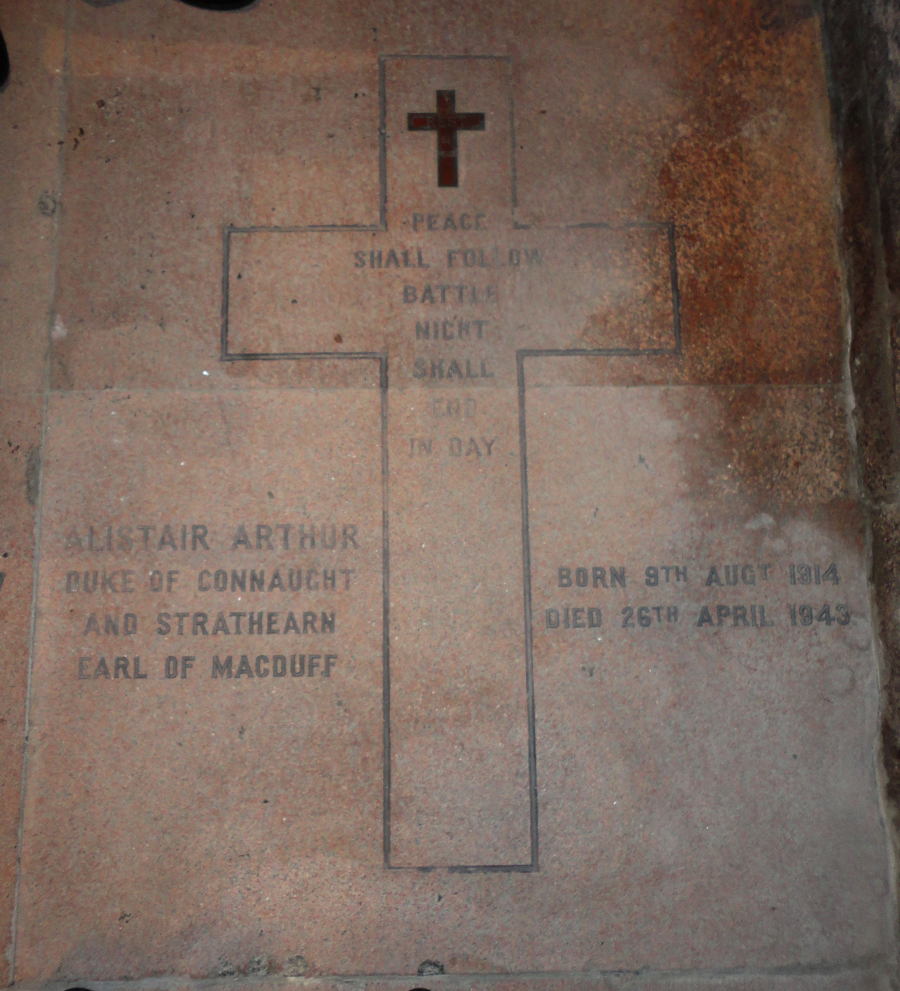 Braemar, Mar Lodge Estate, St Ninian's Chapel - floor slab marking the grave of the 2nd Duke of Connaught (1914–1943)